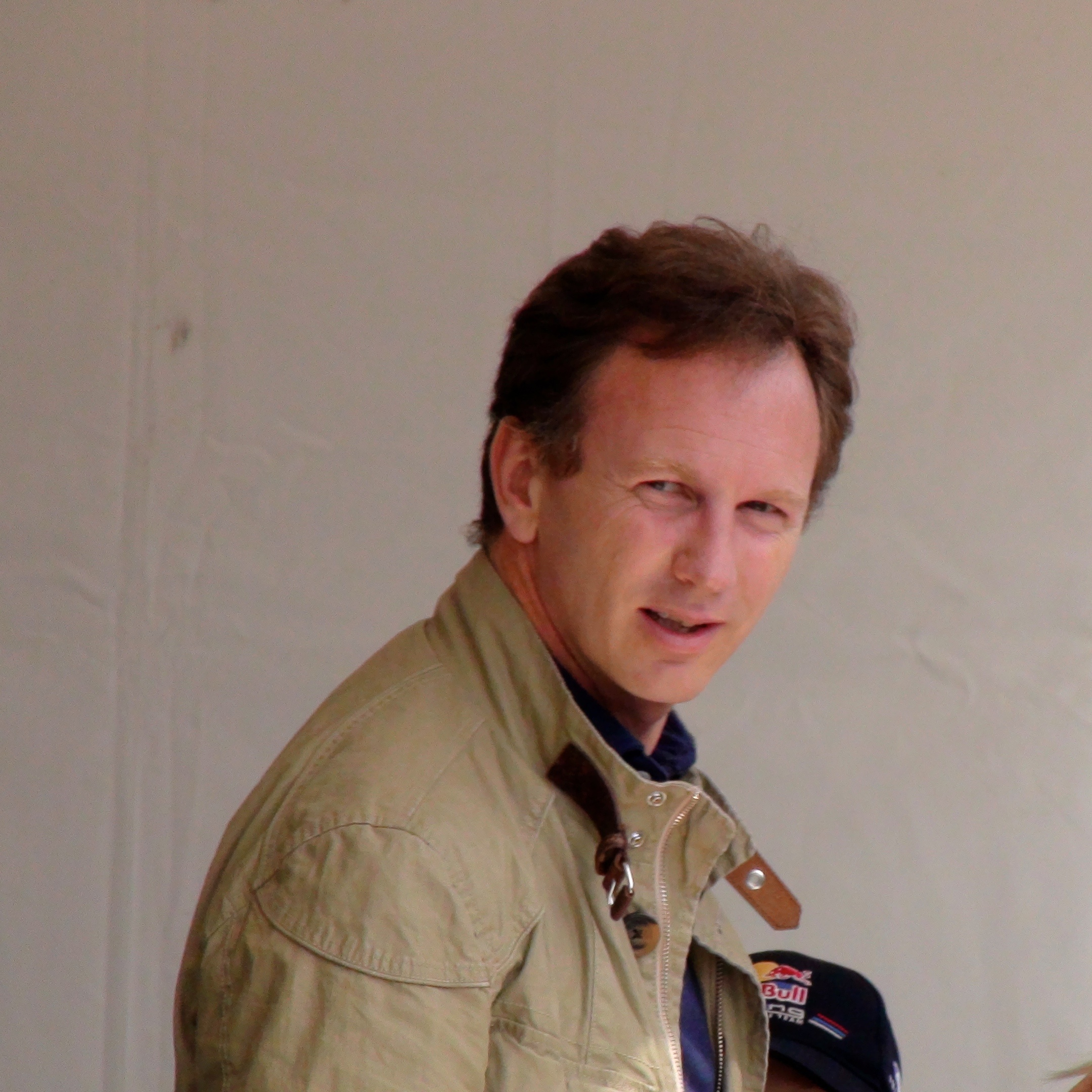 The team principal of Inifiniti Red Bull Racing, Christian Horner, at the 2014 Goodwood Festival of Speed.